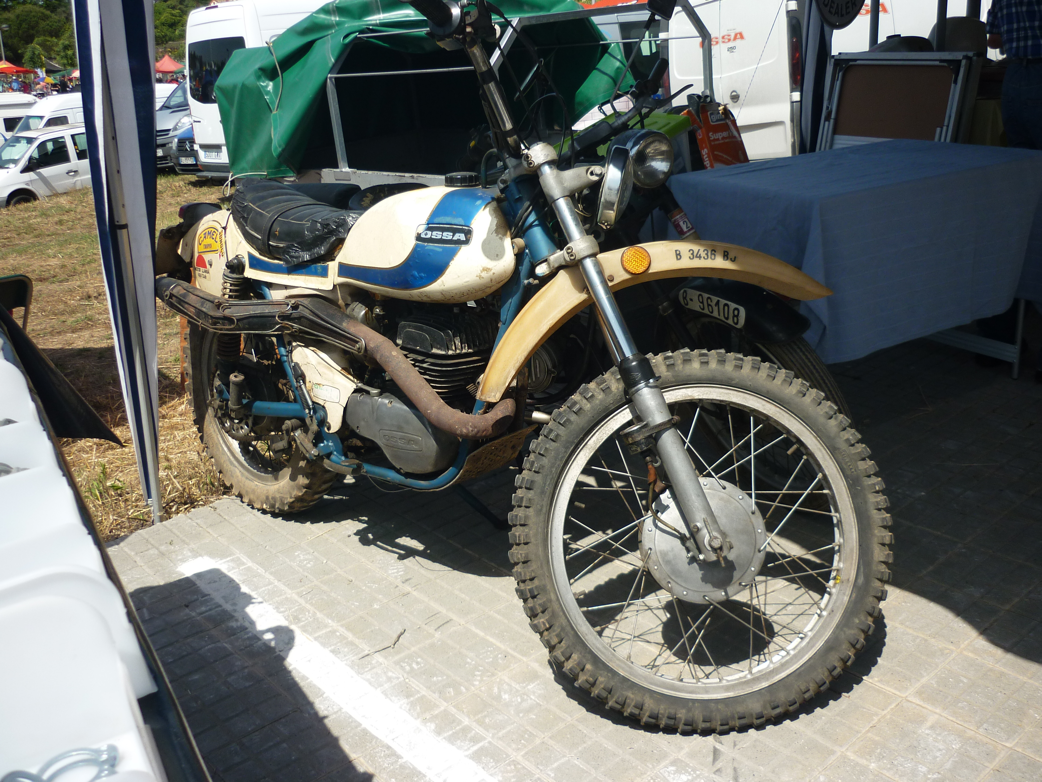 OSSA Enduro 350, 1975